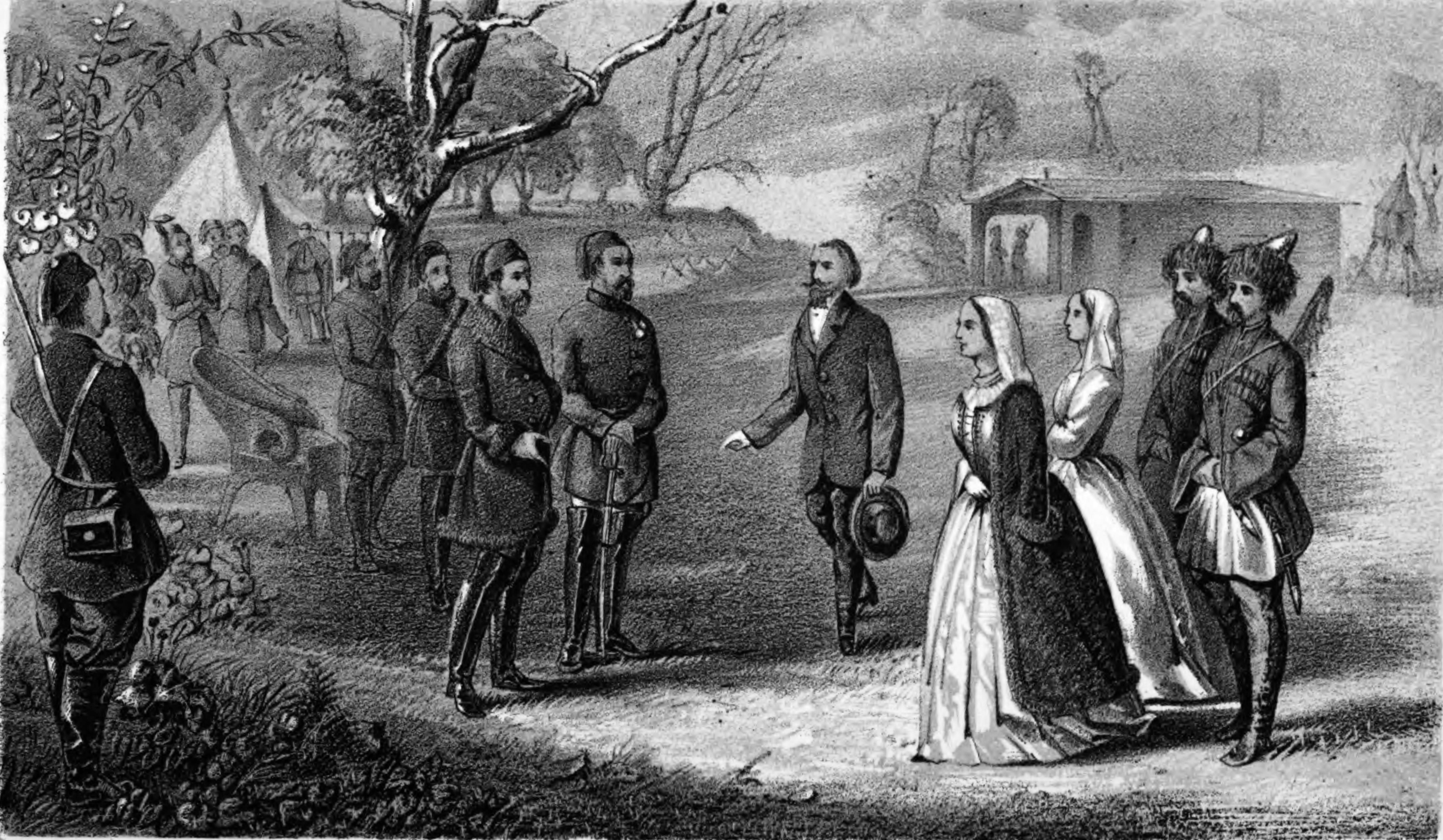 Interview between Omer Pacha & A Mingrelian lady. Head quarters choloni. Laurence Oliphant, The Trans-Caucasian campaign of the Turkish army under Omer Pasha: a personal narrative